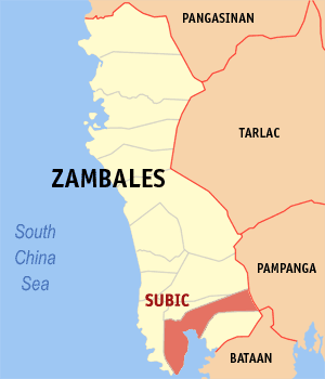 Map of Zambales showing the location of Subic